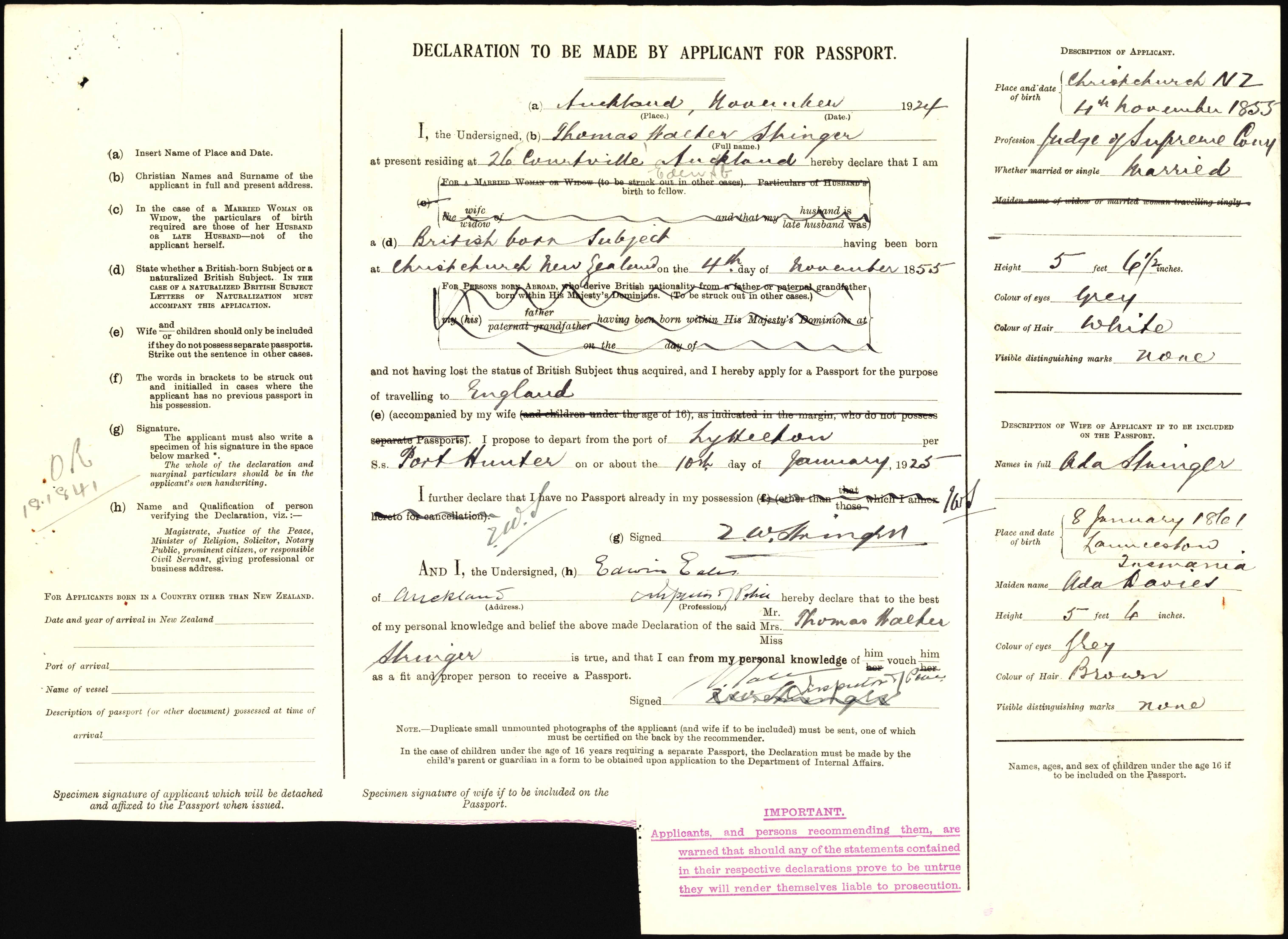 Archives New Zealand Reference: ACGO 8333 IA1 1349 / 15/11/19083